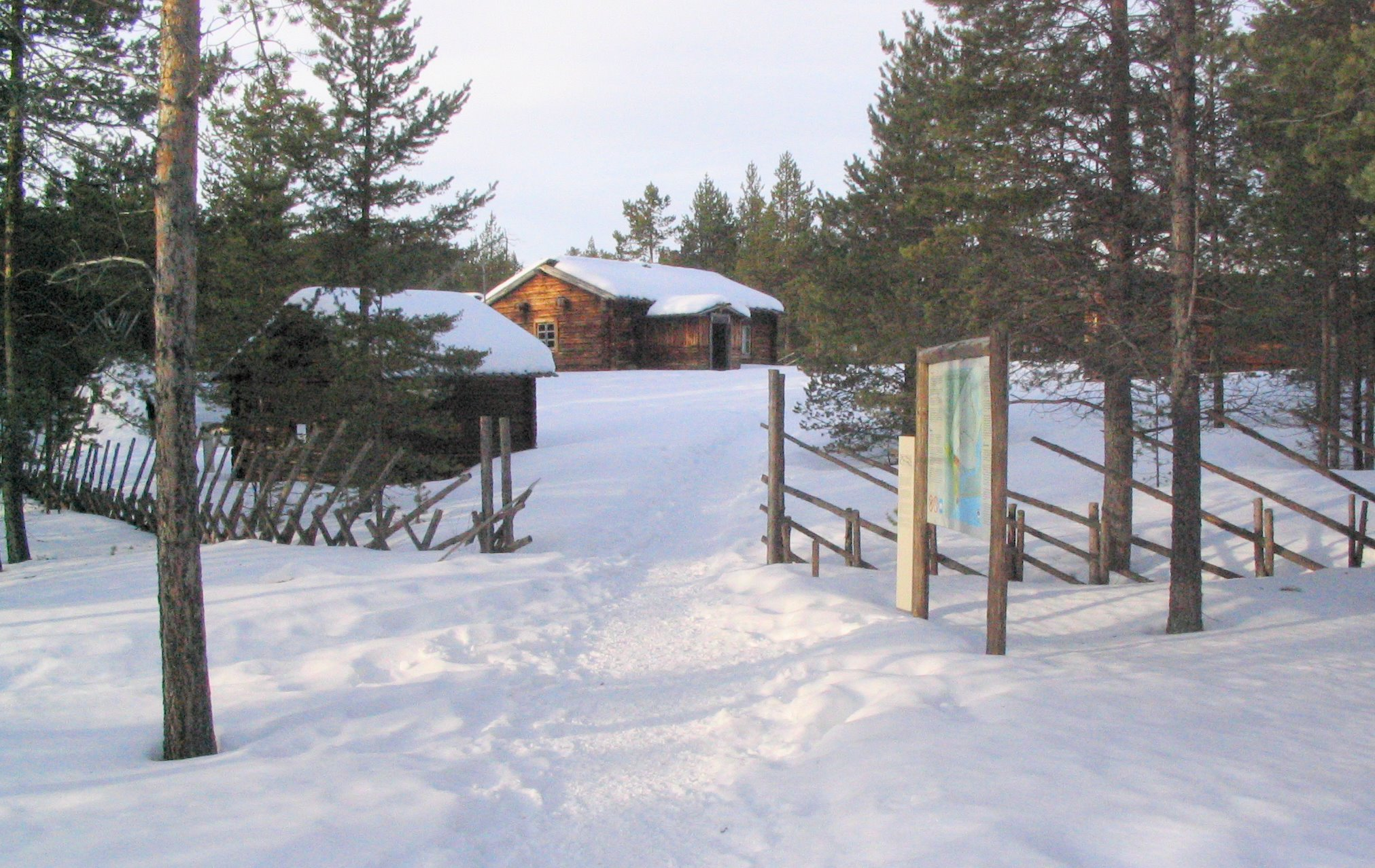 Lapp museum in the village of Inari, Finland.